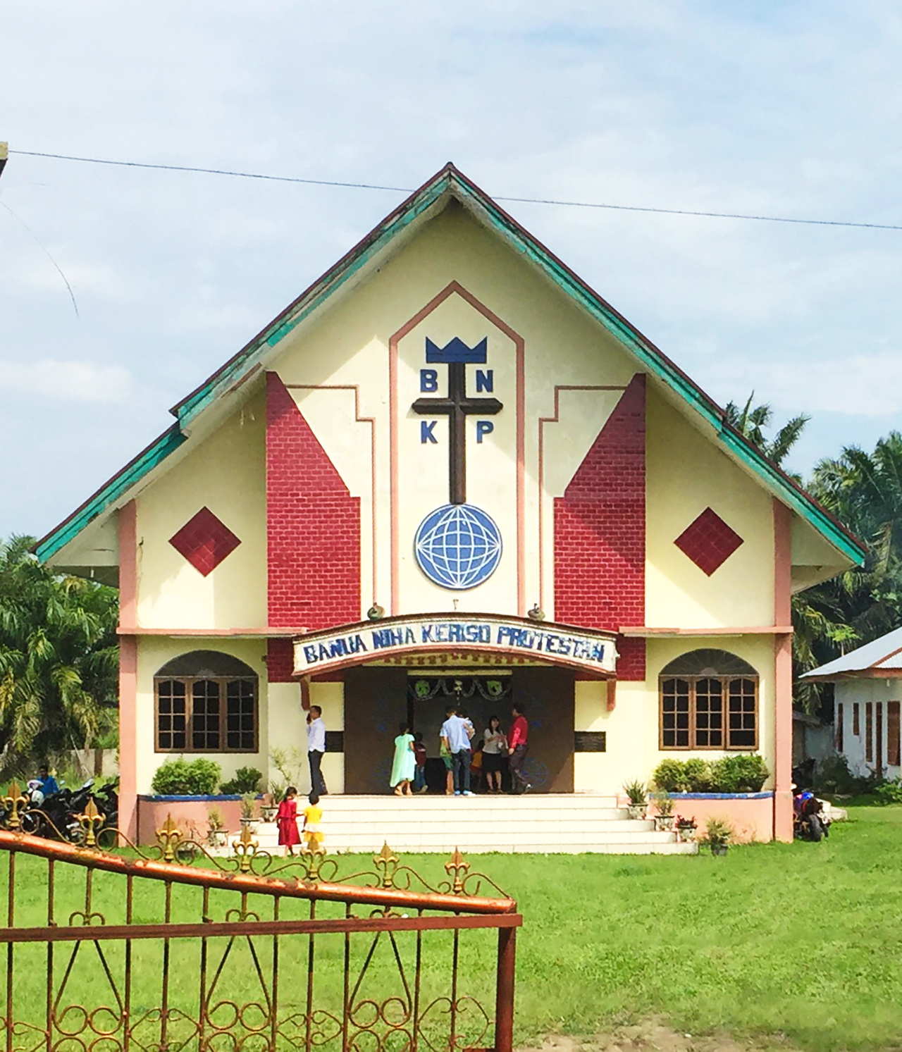 BNKP Tebing Tinggi, Church in Tambangan, Padang Hilir, Tebing Tinggi.